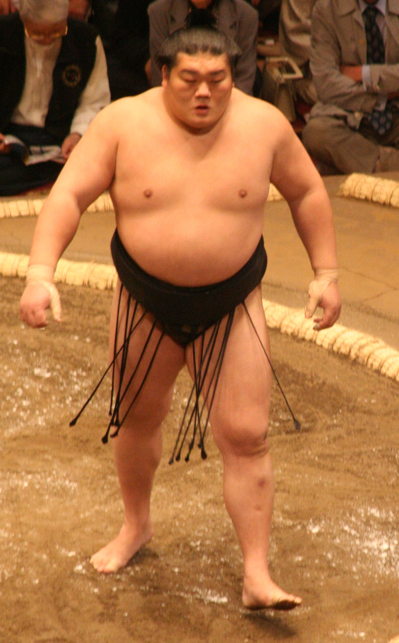 First day of 2009 May Sumo Tournament in Tokyo, Japan - Hokutoriki